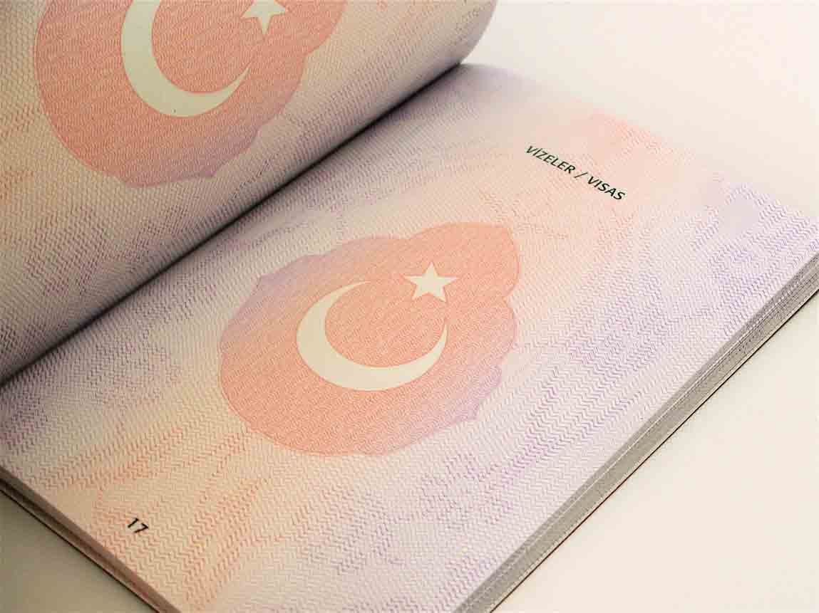 Page 17 of Turkish passport